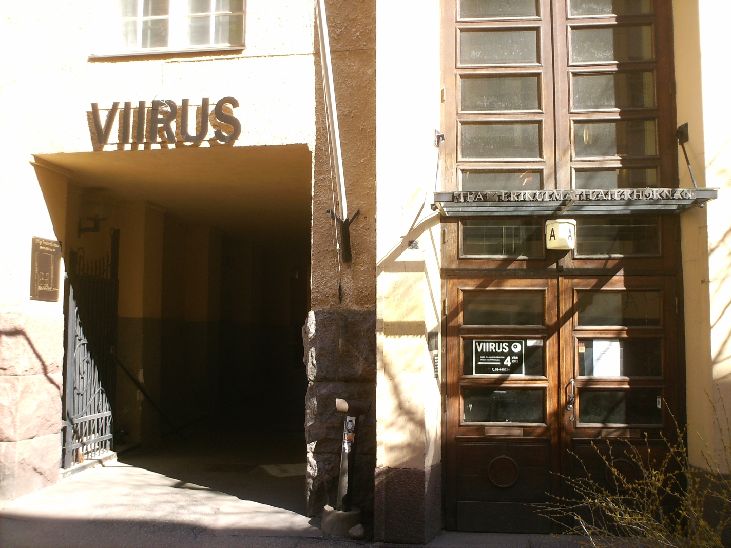 Photograph of the entrance to Teater Viirus in Kruununhaka (Kronohagen), Helsinki (Helsingfors).